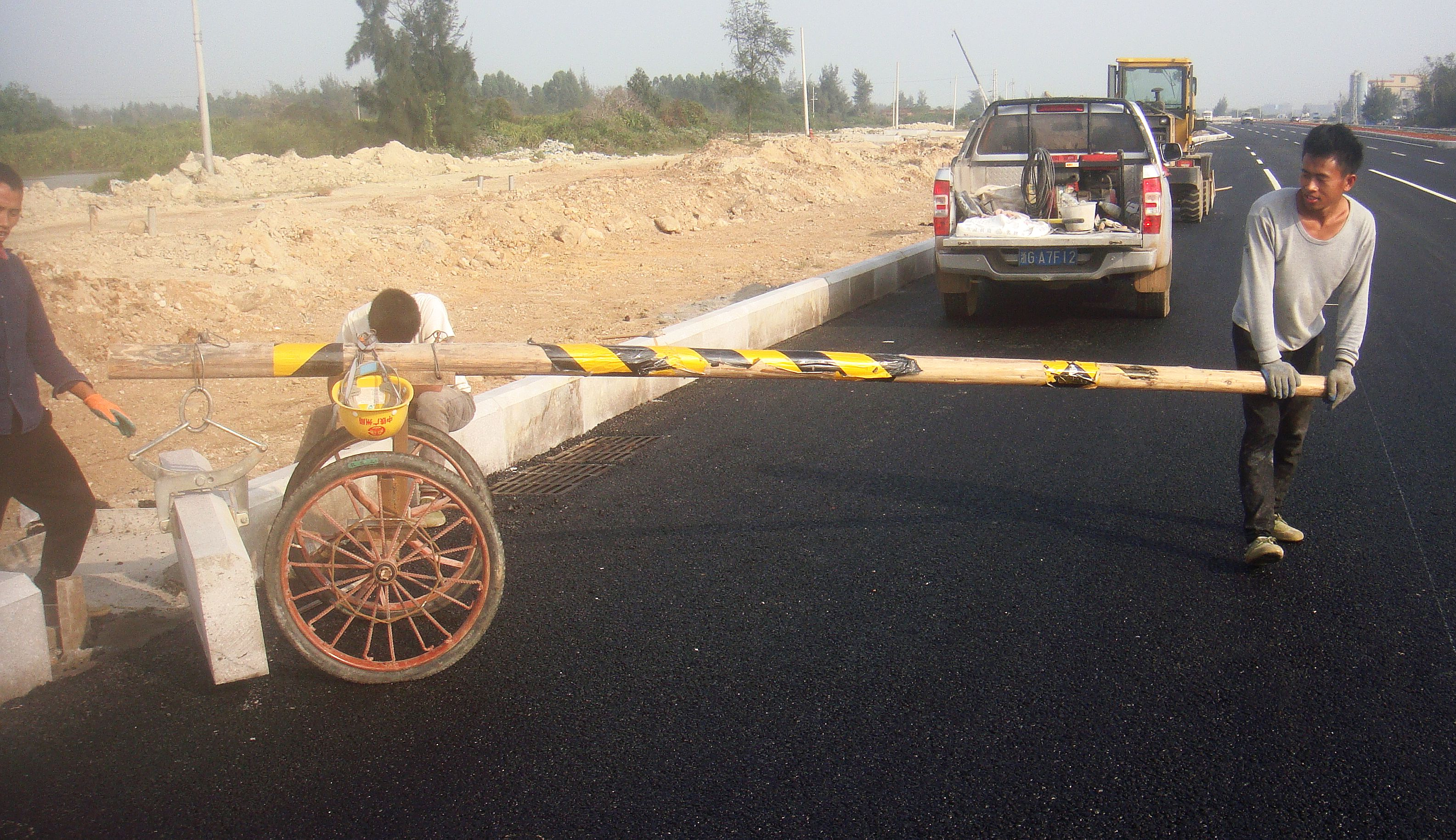 Workers use a lewis to place stone in Hainan, China